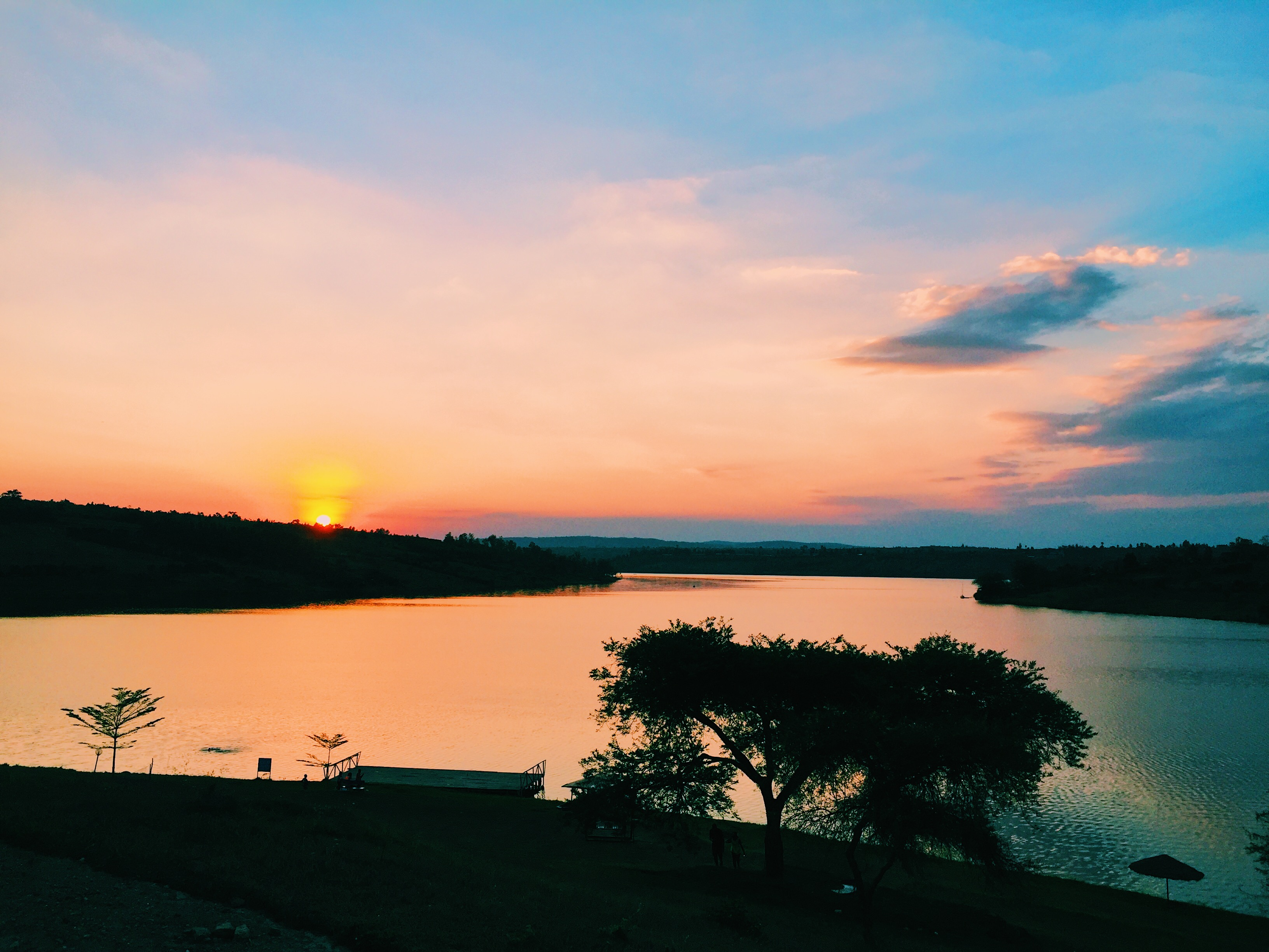 This photo shows the beautiful view of the summer sunset over the Lake Muhazi, Rwanda. This is absolutely a lake to visit in Rwanda. This is an image with the theme "Play" from: Rwanda